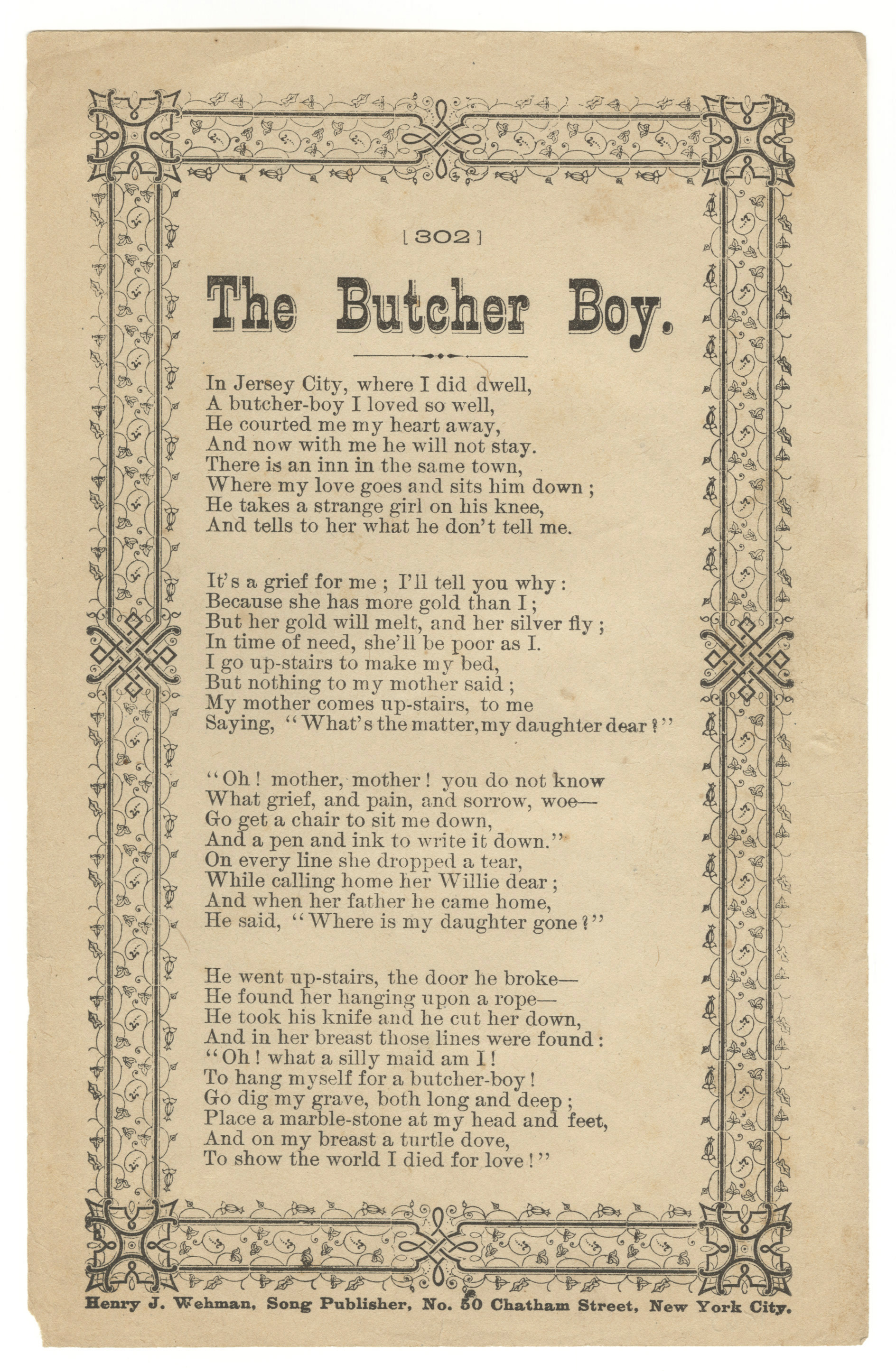 An undated print of the American broadside ballad "The Butcher Boy". Produced by Henry J. Wehman, Song Publisher, No. 50 Chatham Street, New York City. A quite online search[1] suggests he printed these in the mid-1890s.